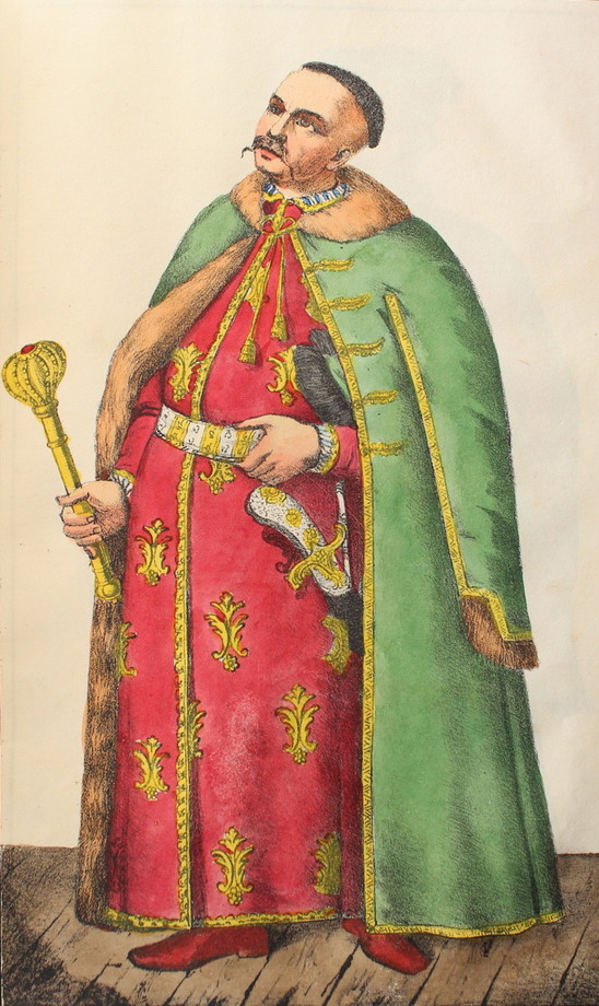 Ukrainian Cossack regimentat (general or colonel)